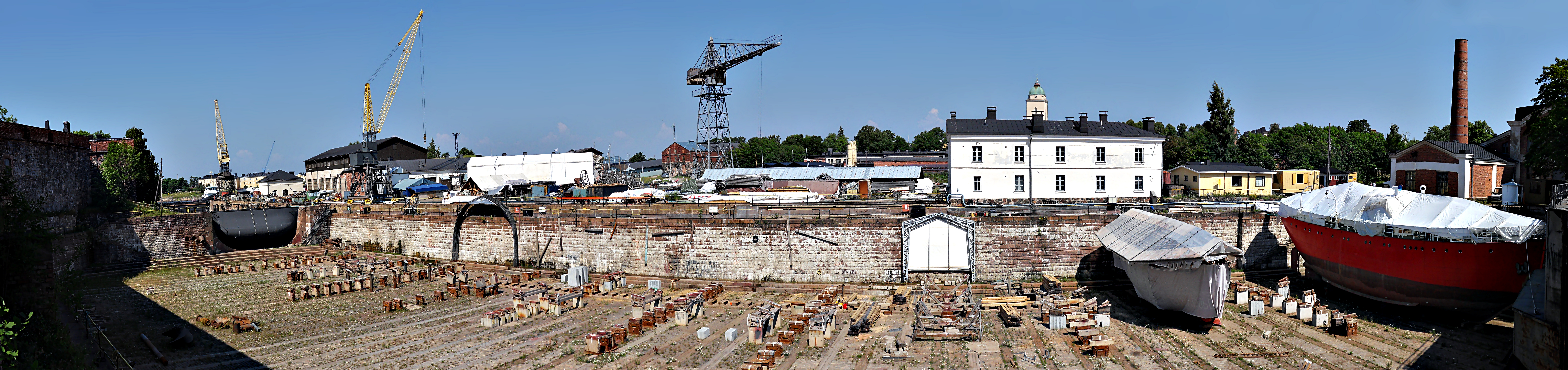 Suomenlinna/Sveaborg dry docks